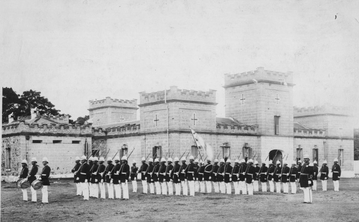 The Royal Guard in front of the Barracks